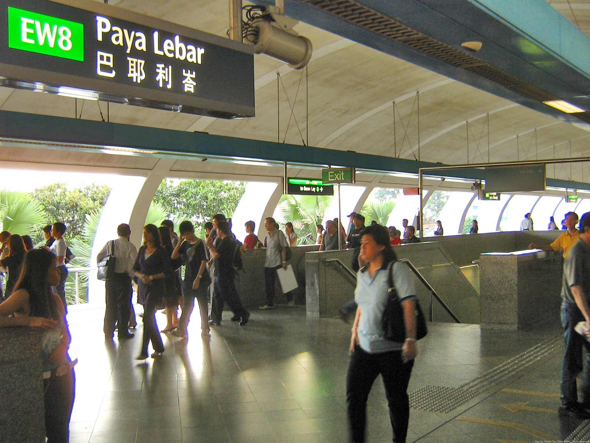 Platform of EW8 Paya Lebar Station during peak hours.